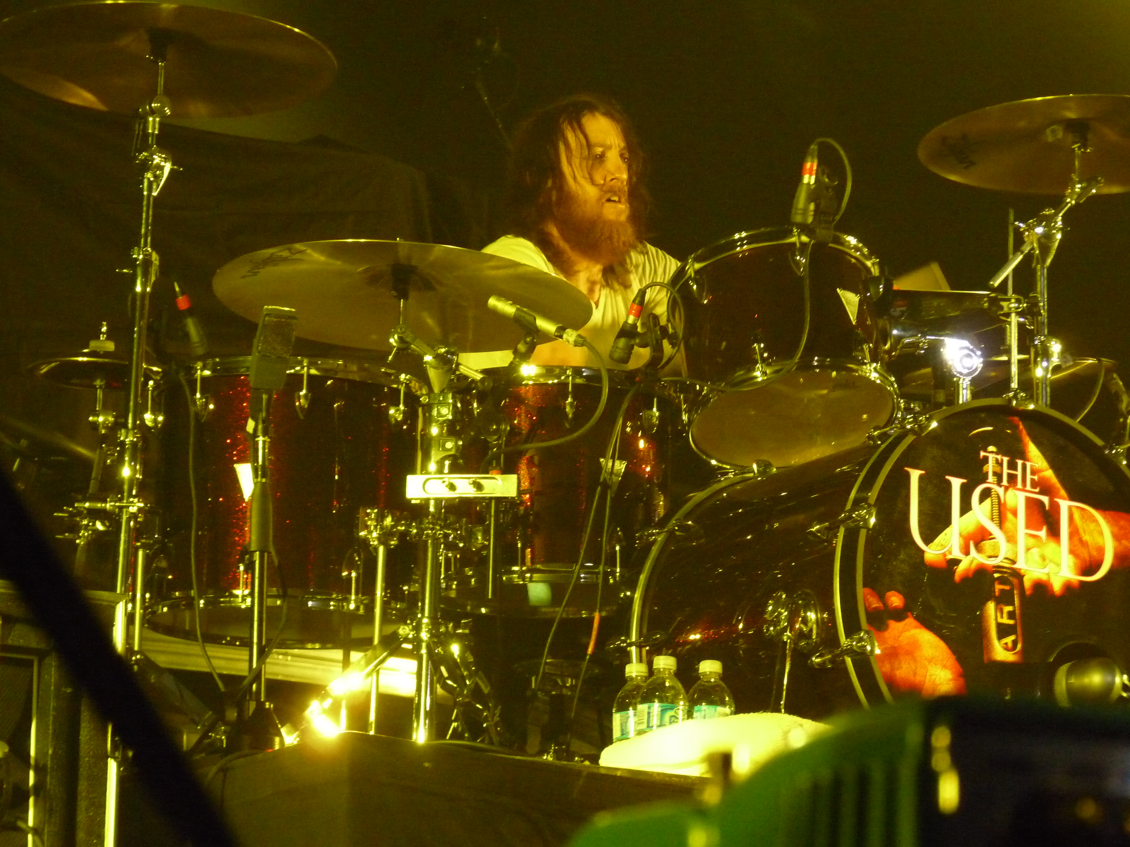 Dan Whitesides of The Used plays at the band's show in Regina, Saskatchewan.